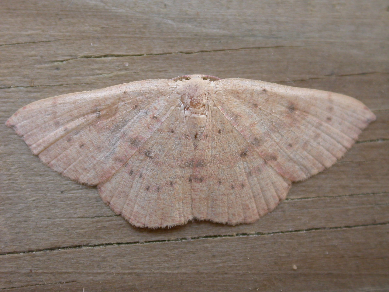 Cyclophora puppillaria, Gastes, Landes, SW France, 6/7 July 2003